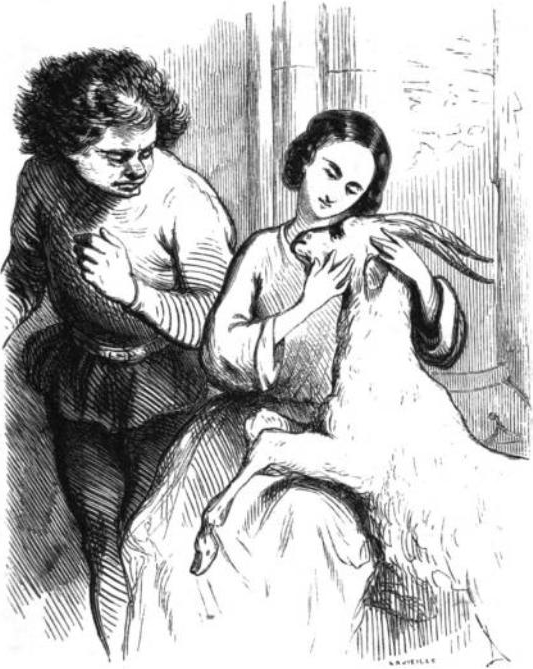 The Hunchback of Notre Dame (1831) by Victor Hugo (1840-1902)